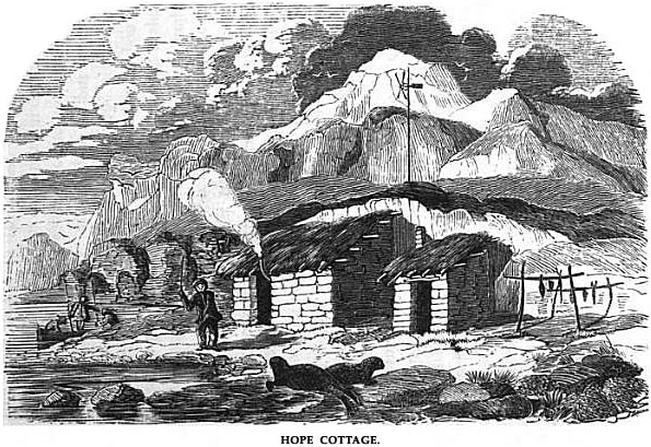 Nunns cottage on the Kerguelen Islands